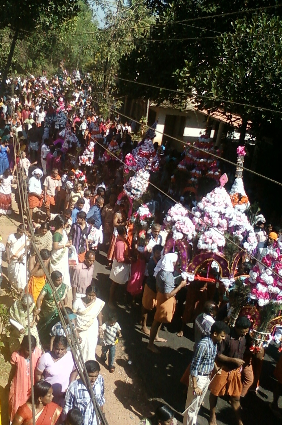 Kavadi Khoshayathra of Cheriyanad Balasubramanya Temple